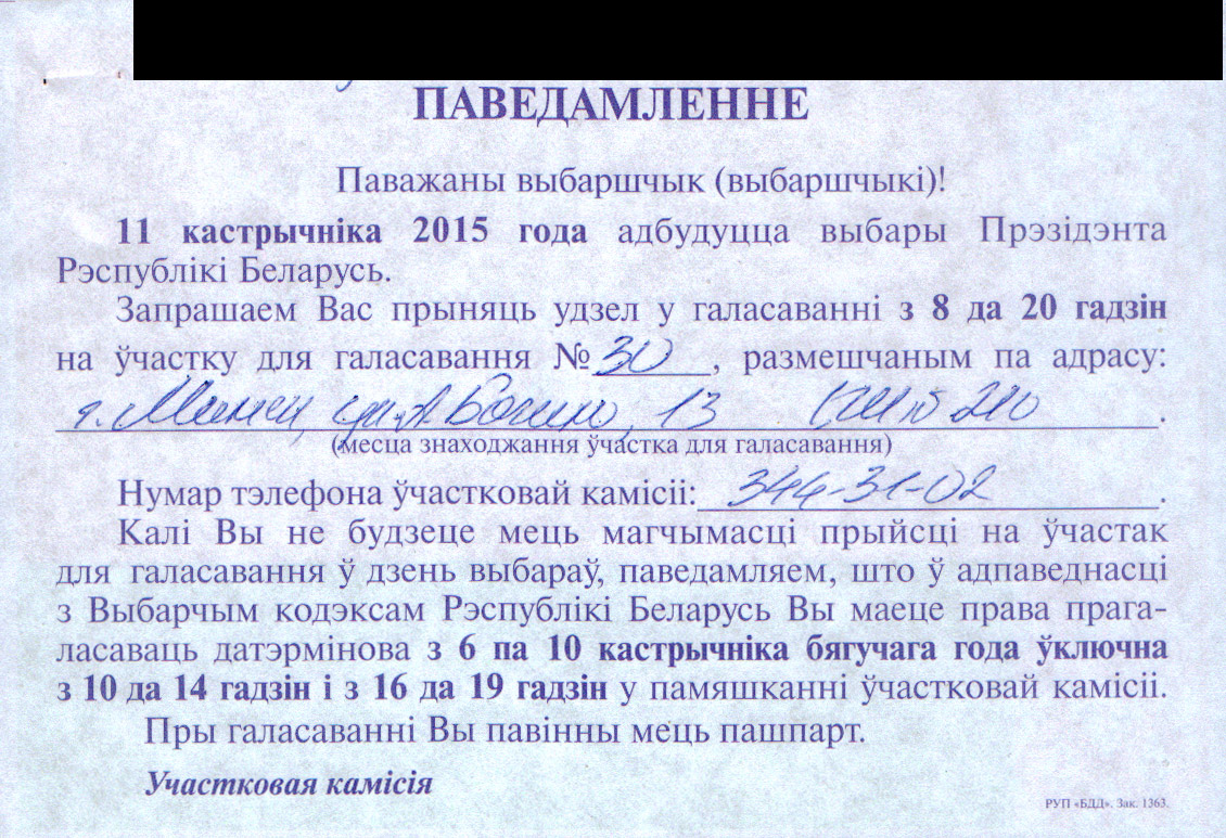 Official invitation to presidental elections in Belarus, 2015 (delivered by post), reverse. Private information is painted in black. Translation from Belarusian: Notification. — Dear voter (voters)! — On 11th October 2015, election of the president of the Republic of Belarus will take place. — We invite you to take part in the voting from 8 to 20 in the polling station No.[30], which is situated at: [Minsk, A.Bačyly street, 13] [School No.210] — (address of the polling station) — Phone number of the local voting commission: [344-31-02]. — If you can't vote on the polling day, we inform that according to the Voting Codex of the Republic of Belarus you have a right to vote preliminary from 6th to 10th October of this year (including the last day) from 10 to 14 and from 16 to 19 in the local voting commission's premises. — You should have a passport during the voting. — Local voting commission.